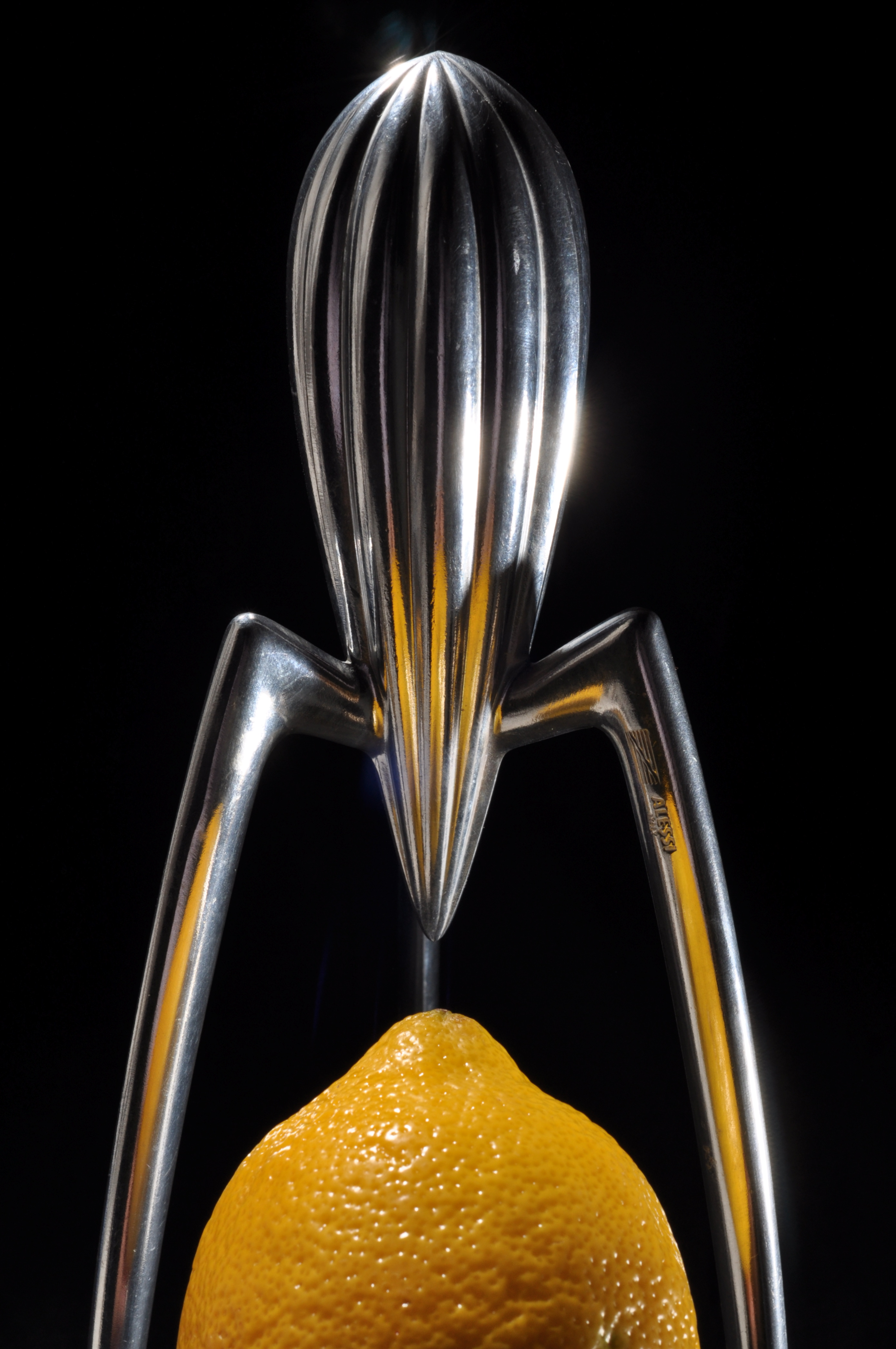 Juicy Salif lemon juicer by Philippe Starck. Designed for Alessi (1990).